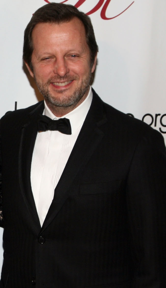 Rob Ashford at the 2012 Drama League Benefit Gala.